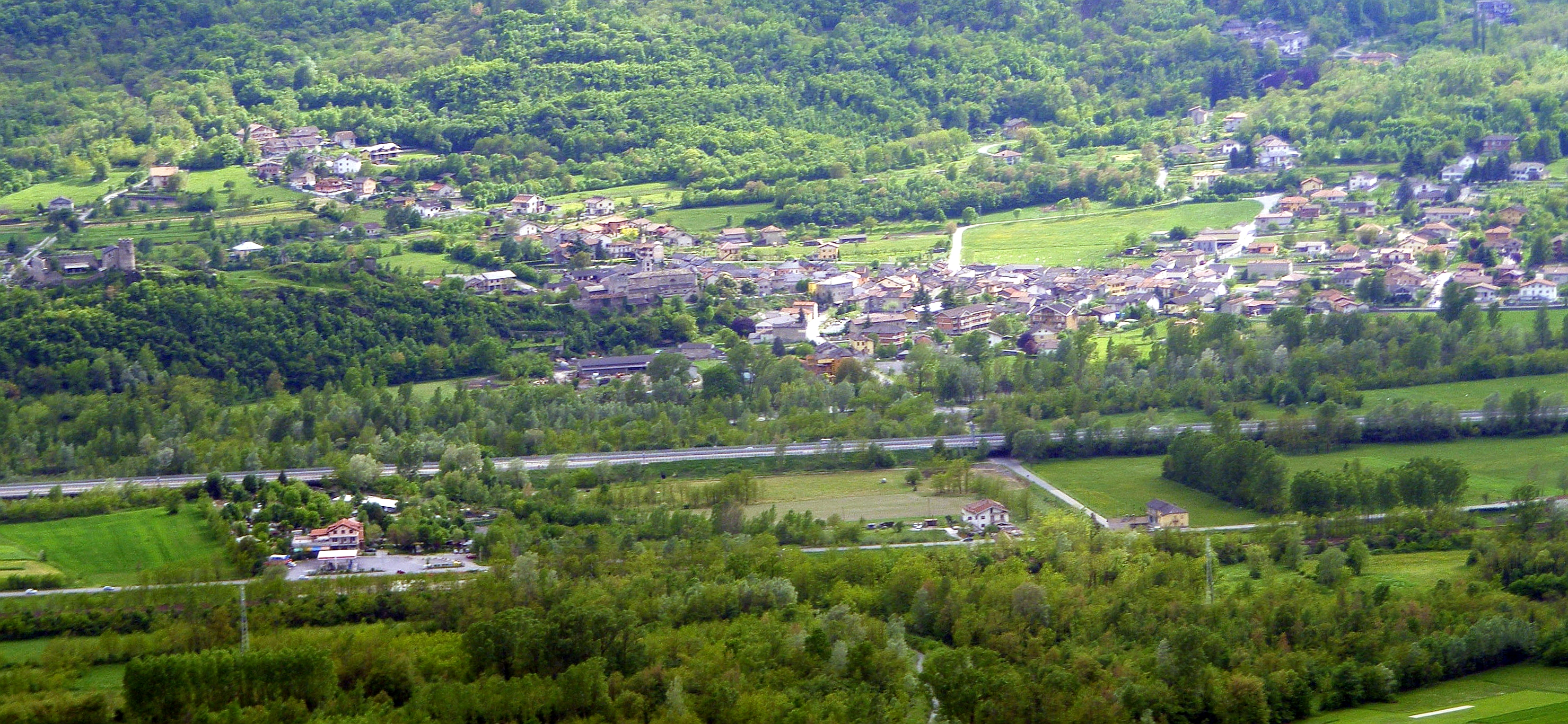 San Giorio di Susa (TO, Itraly): panoramics from Bruzolo